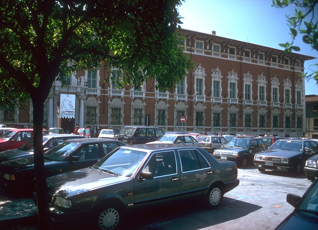 Palazzo Cybo-Malaspina, located in the town of Massa in the province of Massa-Carrara/Tuscany/Italy